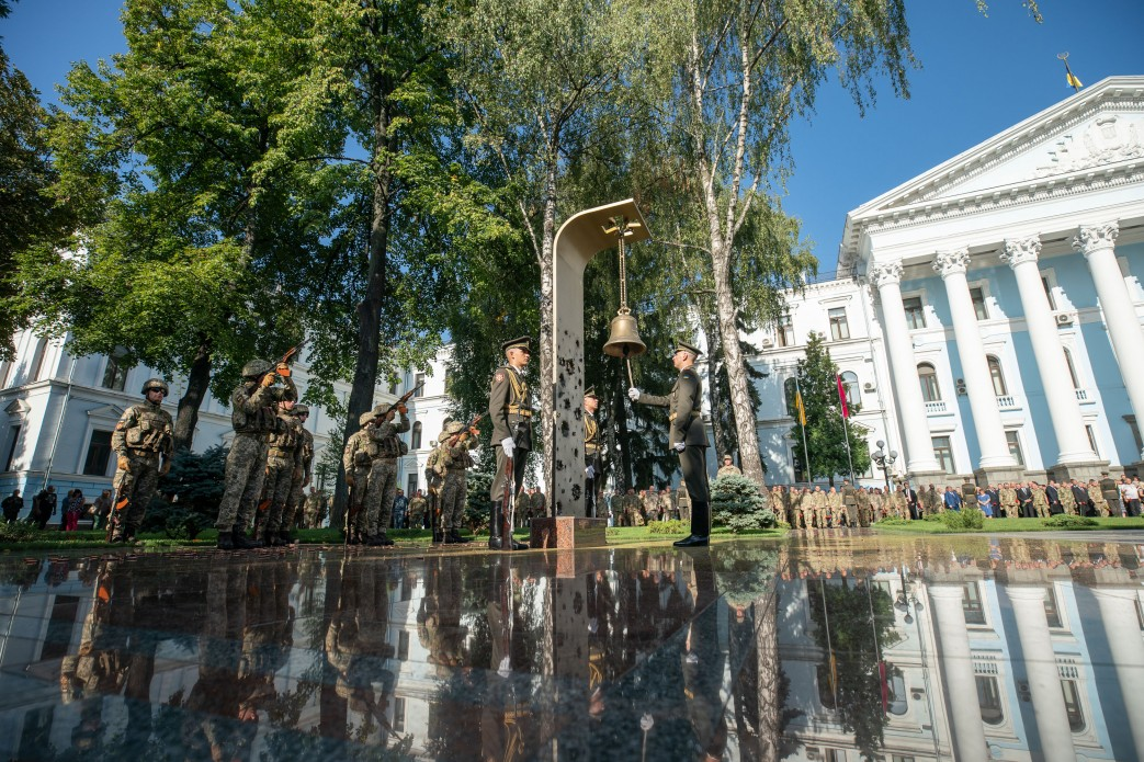 Remembrance Day of Ukraine's defenders at Ministry of Defence memorial site. Kyiv, 2019